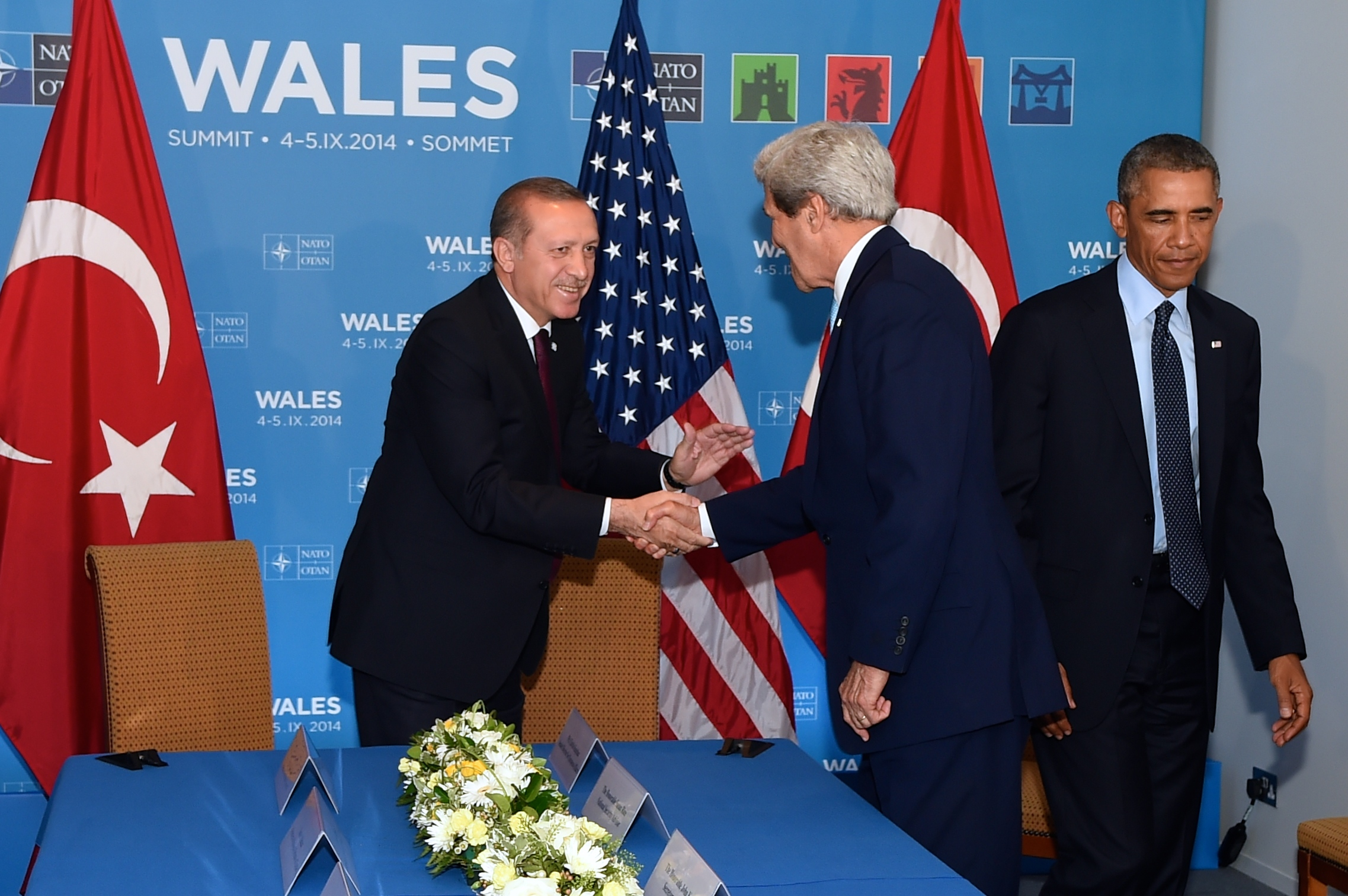 U.S. Secretary of State John Kerry shakes hands with Turkish President Tayyip Erdogan before joining President Obama for a bilateral meeting between the leaders on the sidelines of the NATO Summit on September 5, 2014 in Newport, Wales, United Kingdom. [State Department photo/ Public Domain]